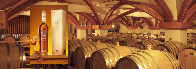 Ageing of grappa in oak barrels and artistic presentation of the product.